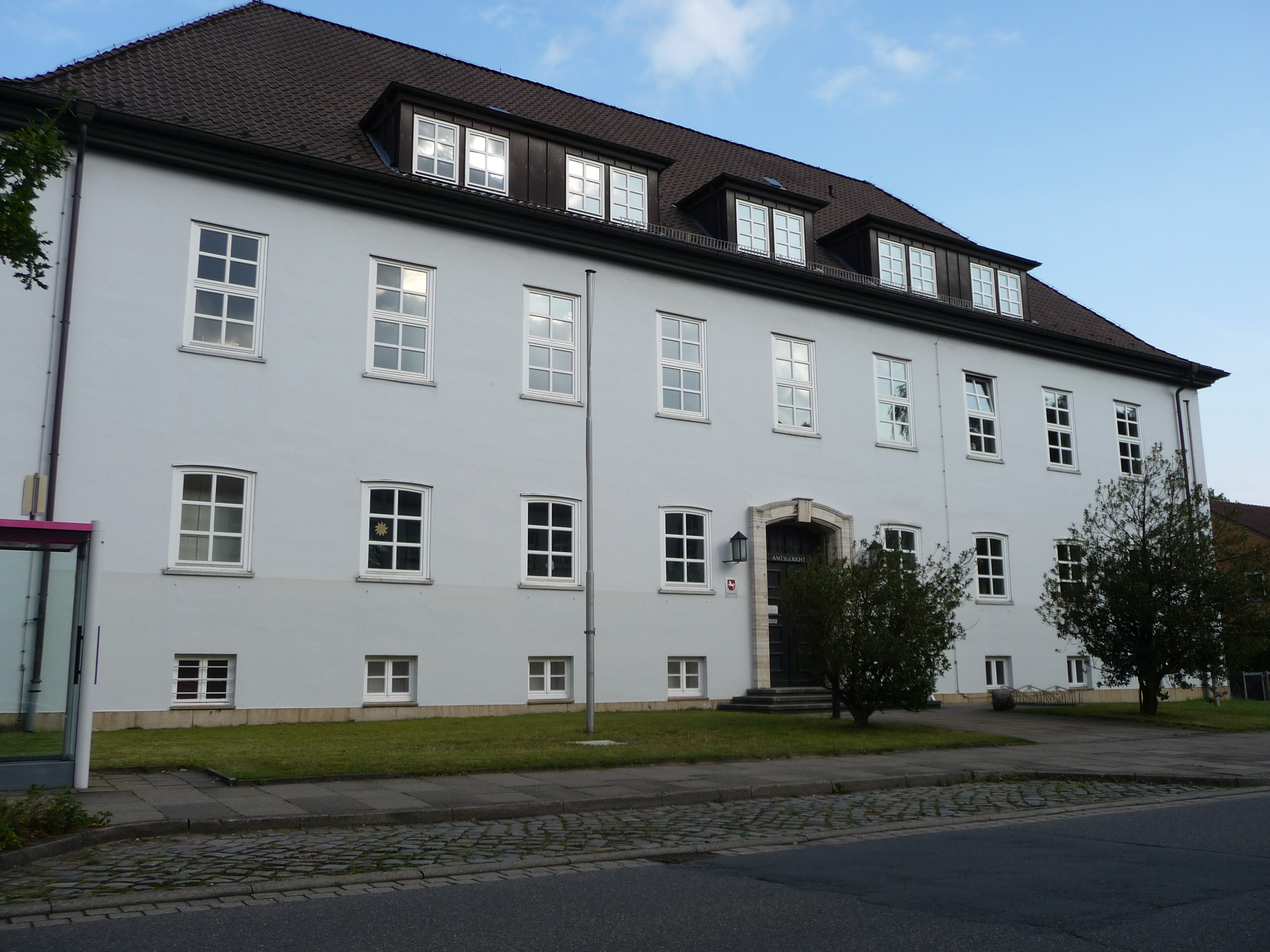 Main building of the Local Court Soltau, Rühberg 13/15